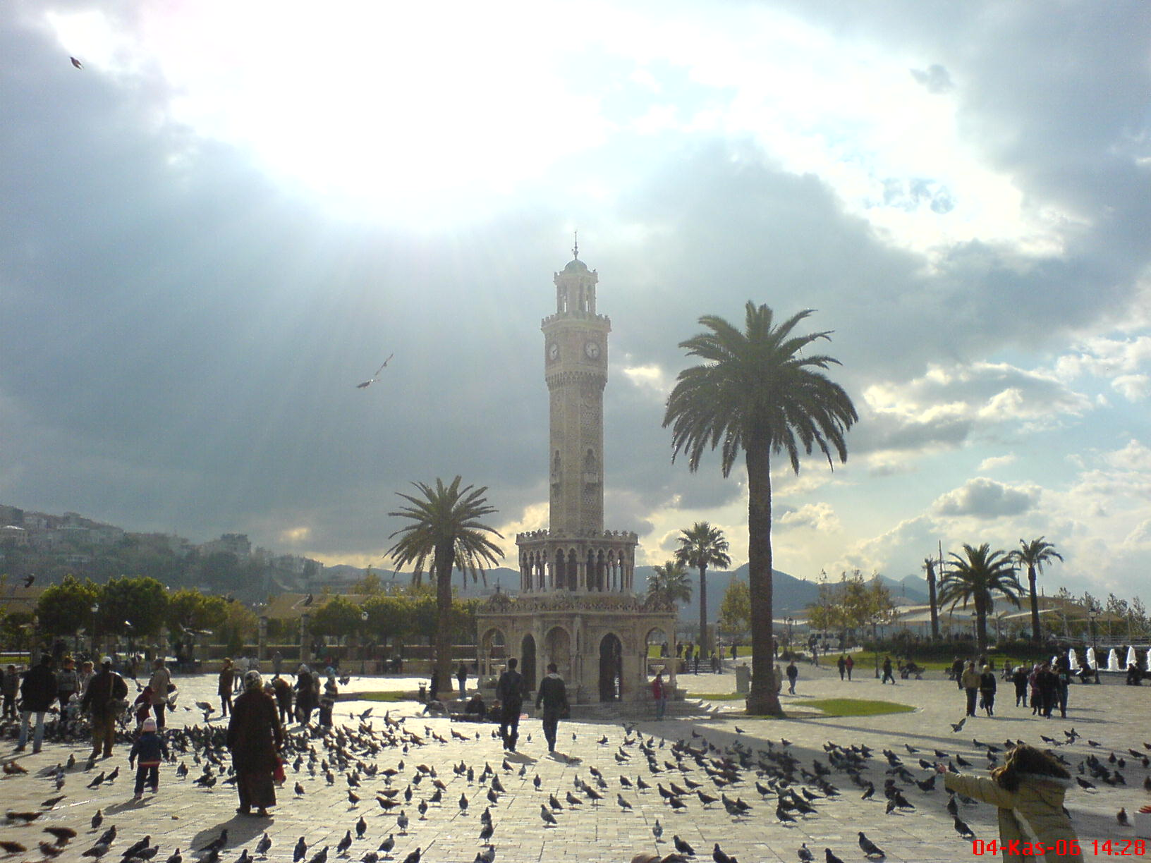 İzmir Clock tower